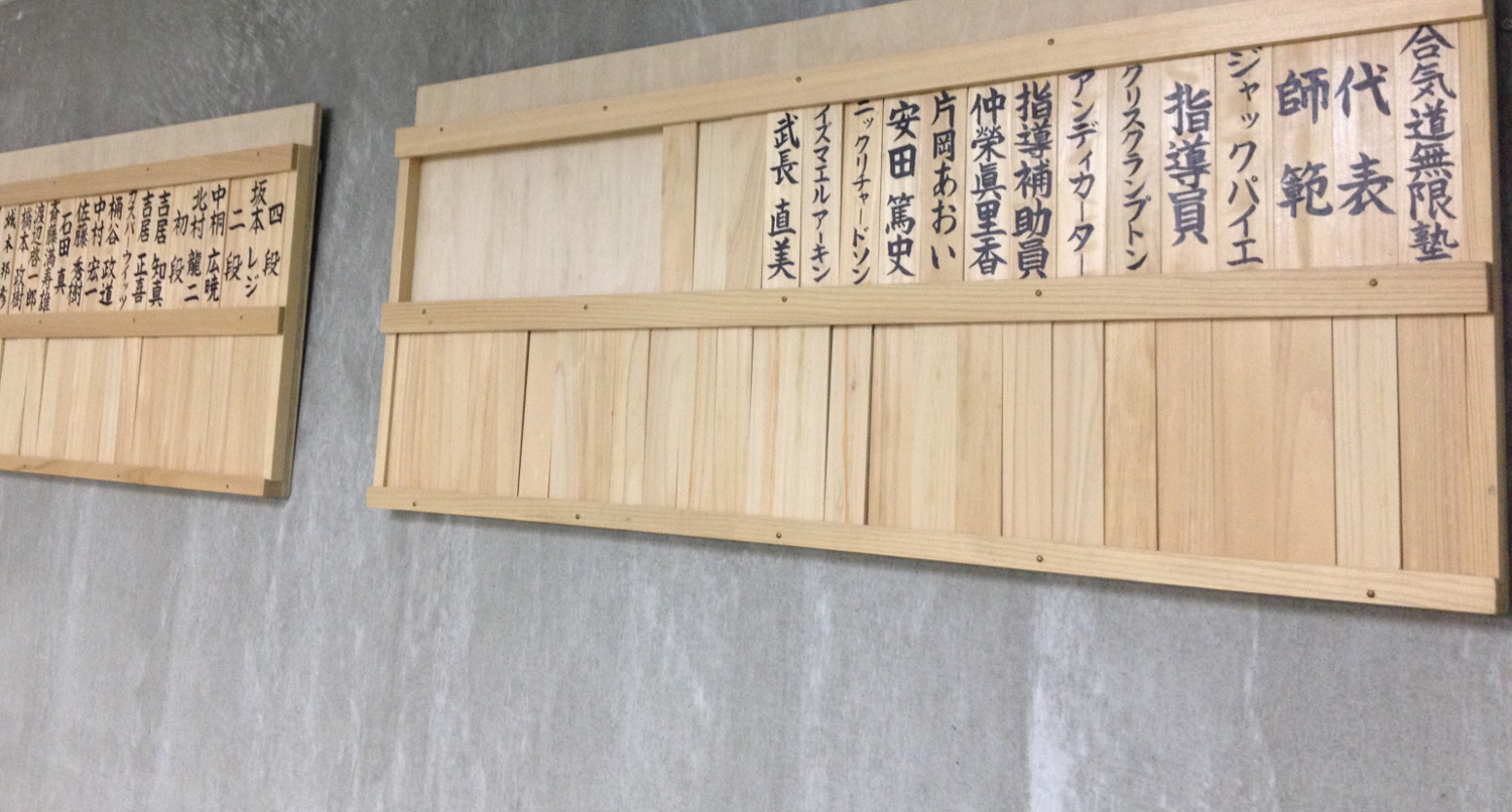 The nameplate rack at the Mugenjuku aikido dojo in Kyoto, Japan. Instructors are on the right side and black-belts on the left. Names are listed from right to left starting with a plaque that reads "Aikido Mugenjuku", then "Daihyo" ("delegation", meaning the dojo's representatives), "shihan" ("master"), "shidoin" ("instructors"), "shidohojoin" ("assistant instructors"). The left side shows "4th-dans", "2nd-dans" and "1st-dans."